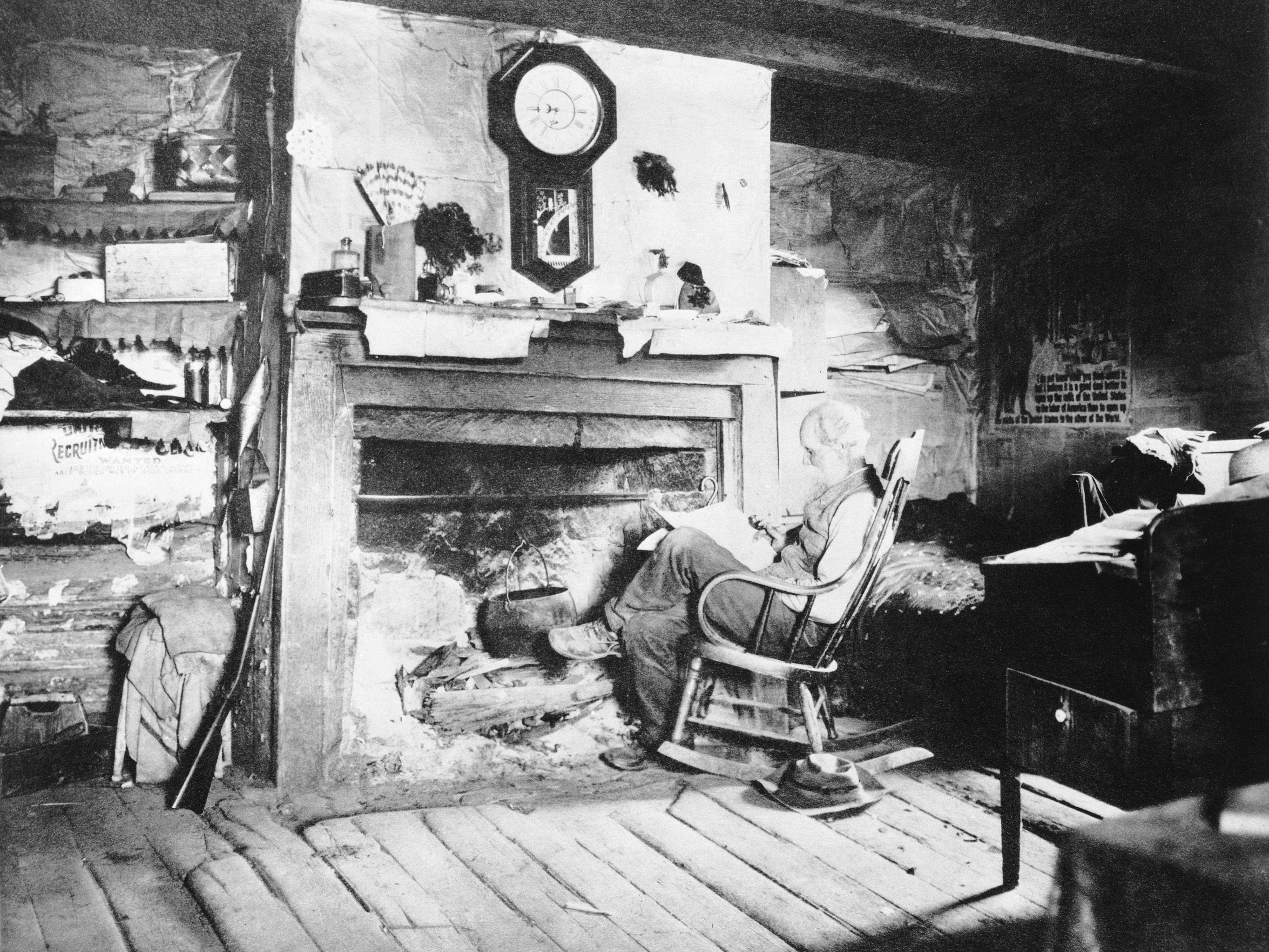 Portrait of Galen Clark, the first white man in Yosemite Valley Mr. Clark sits in front of his cabin's fireplace in his rocking chair, facing to the left. He is dressed in a shirt, pants and vest while his hat sits on the floor to the side of his chair. He is bald and sports a long, white beard. A kettle has been hung inside the fireplace, over whose mantle a clock has been mounted among other brick-a-brac. A poster mounted near a rifle to the left reads "Recruits WANTED for the United States Army. Able-bodied men of good character".